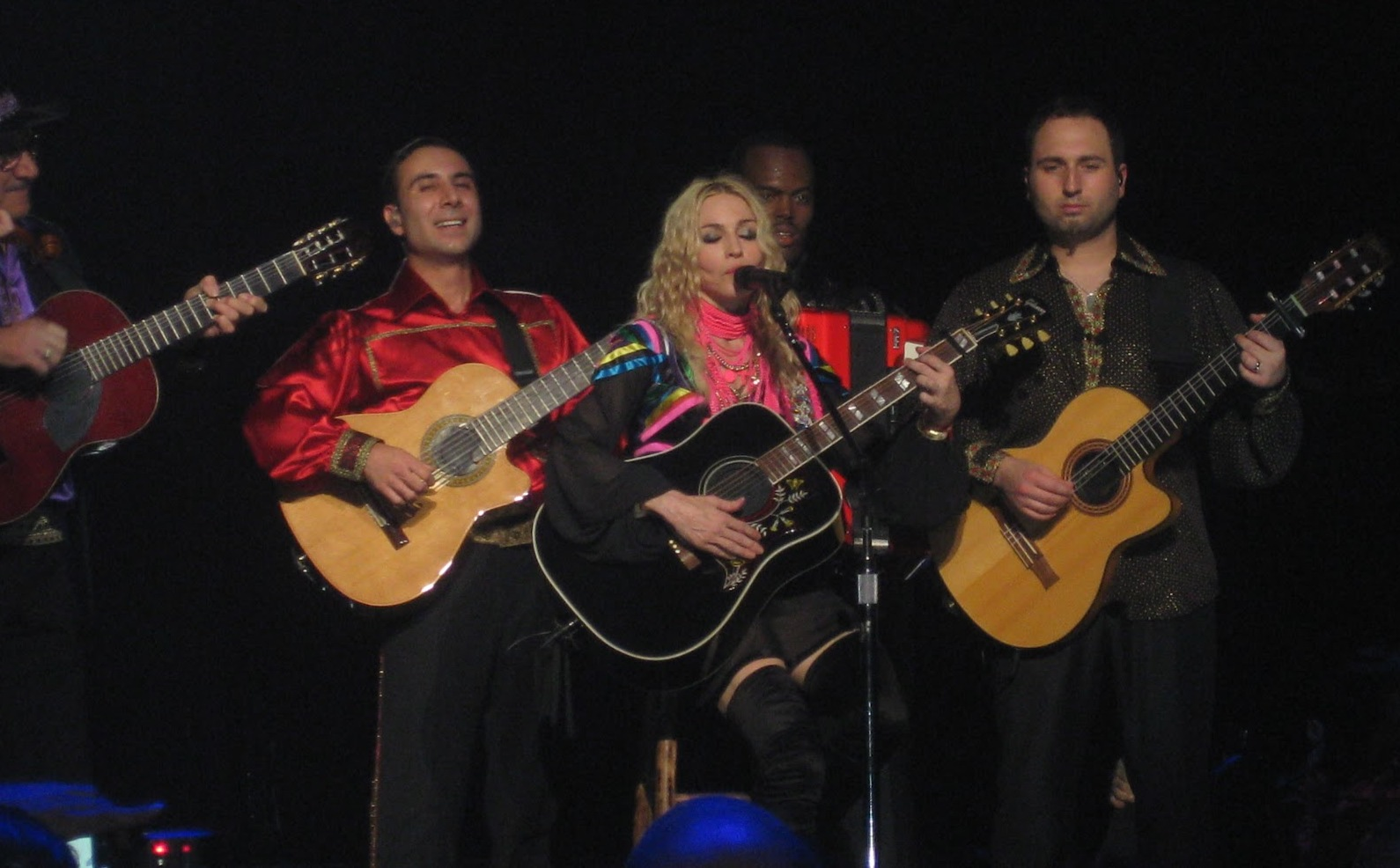 Picture taken by my mother during the Madonna concert we attended in NY back in 2008